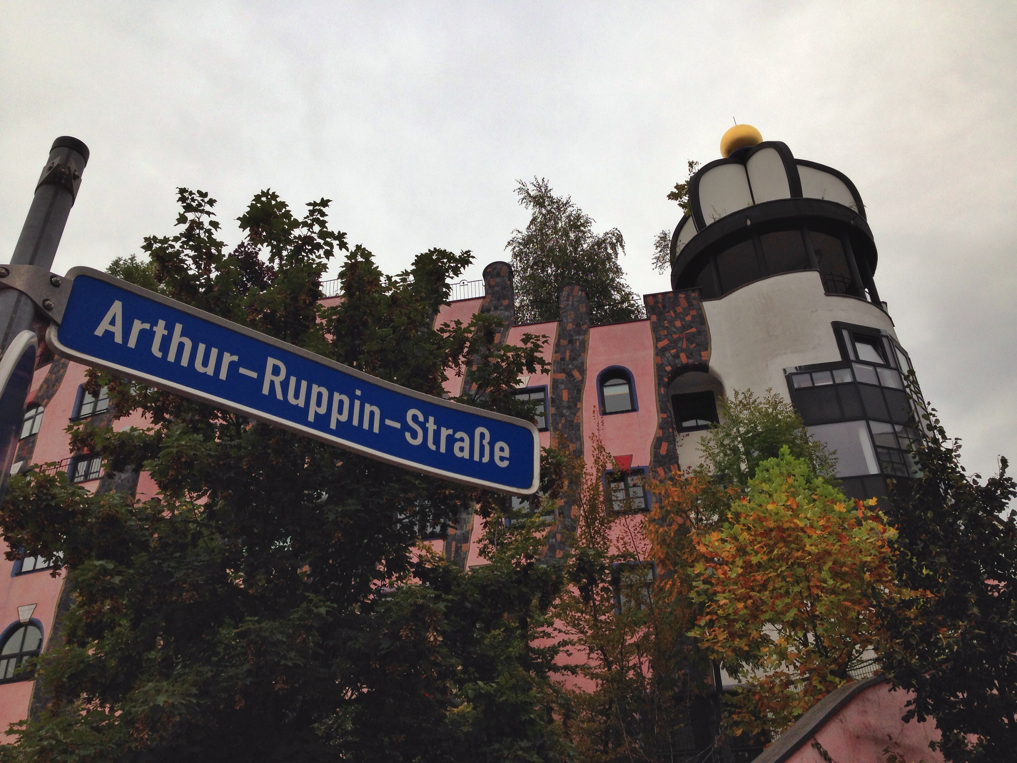 Arthur Ruppin Street next to the Green Citadel of Magdeburg, Germany